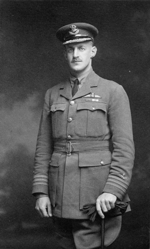 Photograph of Major Lionel Rees, Royal Flying Corps, a World War I Victoria Cross recipient.